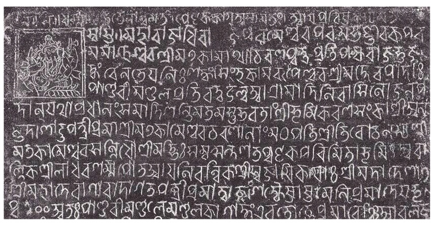 A charter issued by the Nilachal King Madhavdeva.